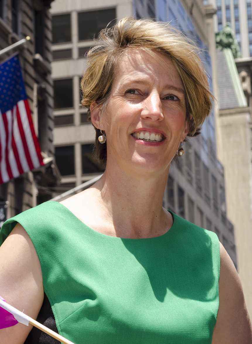 Zephyr Teachout at the 2014 LGBT Pride March